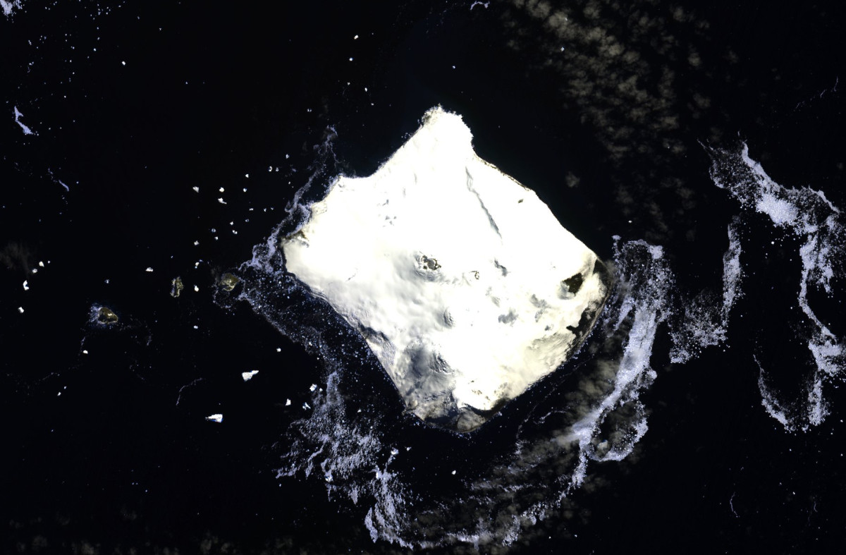 NASA Terra ASTER image of Bristol Island, South Sandwich Islands, in the Southern Atlantic Ocean. To the West, Grindle Rock, Wilson Rock and Freezland Rock.